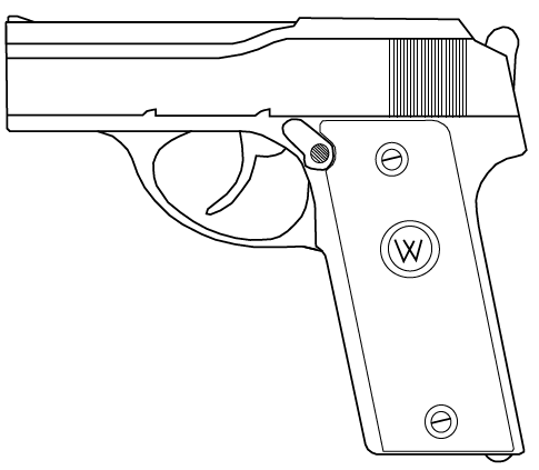 Little Tom pistol from hands of Alois Tomiška